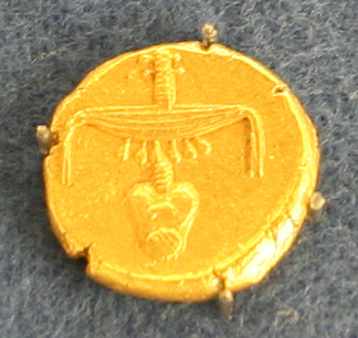 Stater of Nectanebo II (360-342 BC); Kestner museum, Hannover.Two hieroglyphs: the nfr, for beauty, and the gold (hieroglyph). Combined the two hieroglyphs state: Gold-Beautiful, or "Fine Gold" !, (Beautiful Gold)